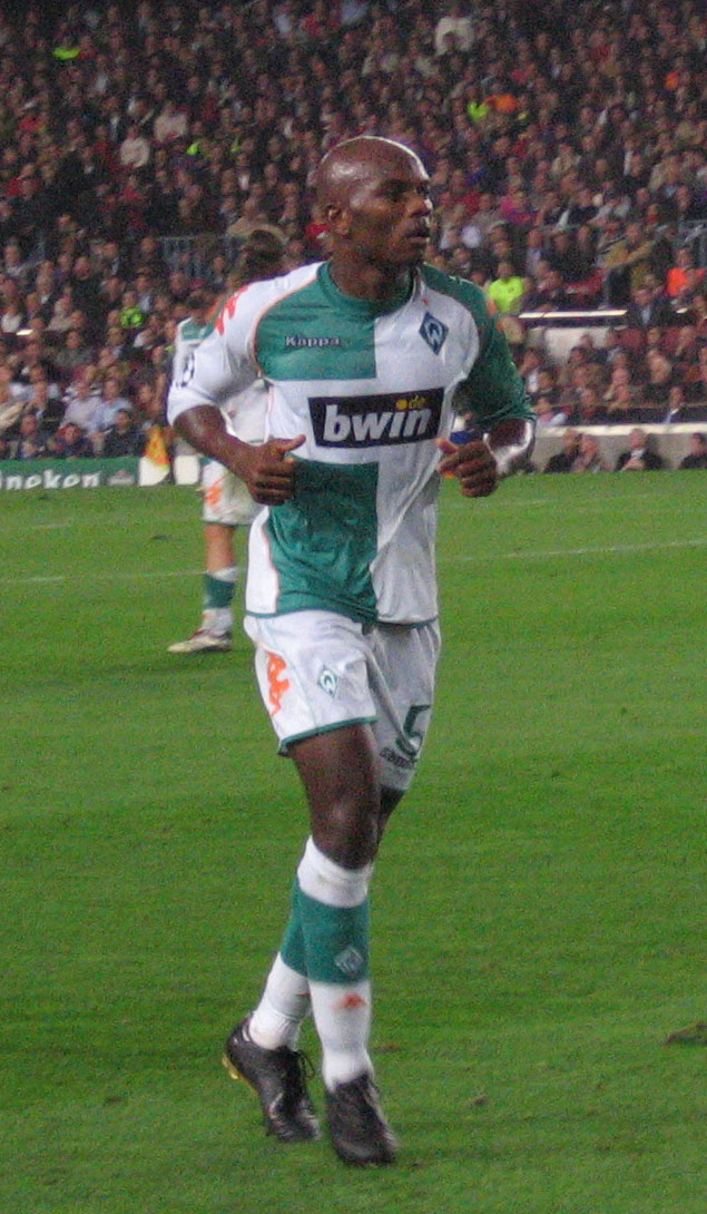 Pierre Wome, SV Werder Bremen's player, during the match FC Barcelona-SV Werder Bremen.